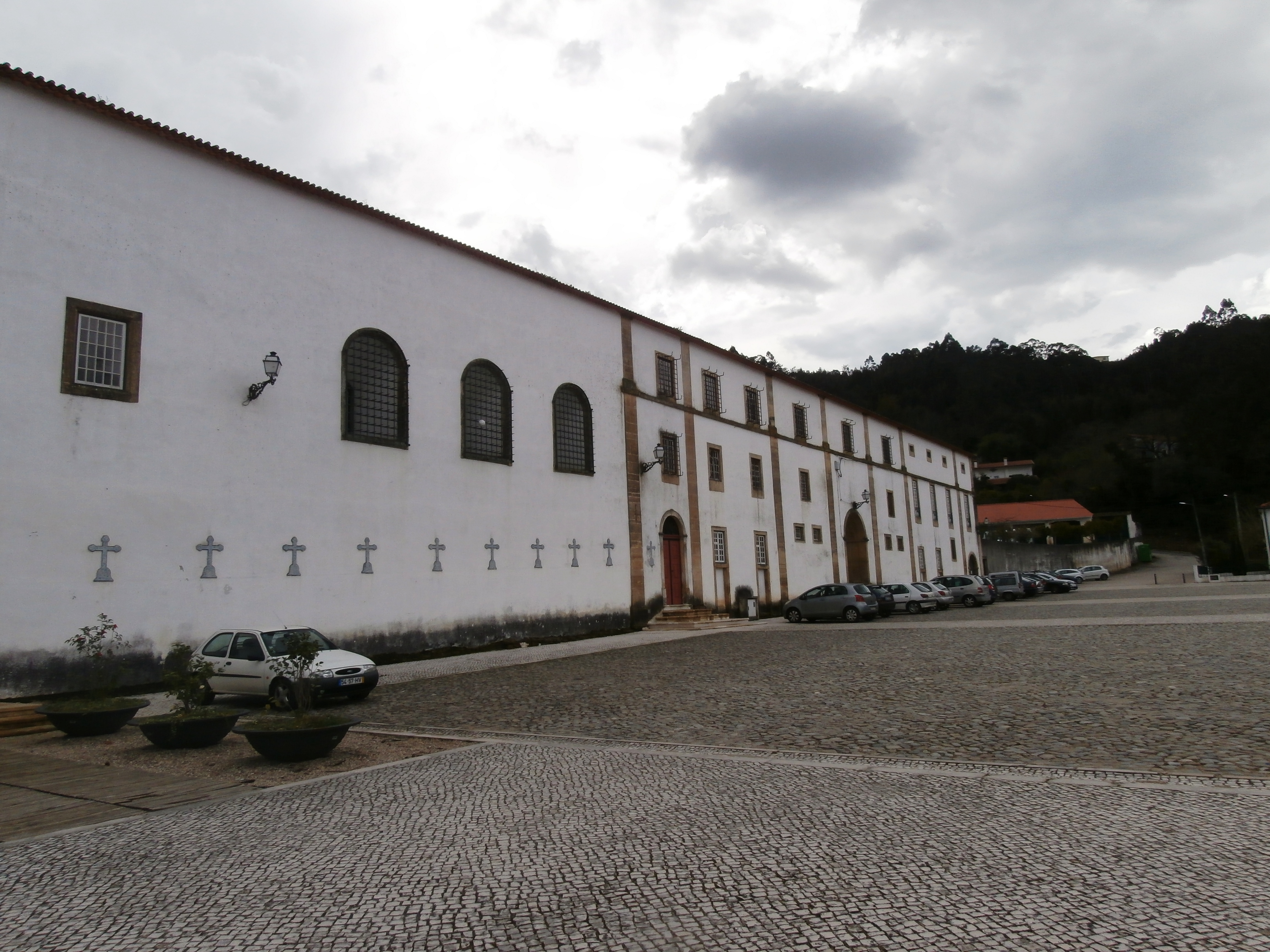 Convento de Santa Maria de Semide, em Miranda do Corvo